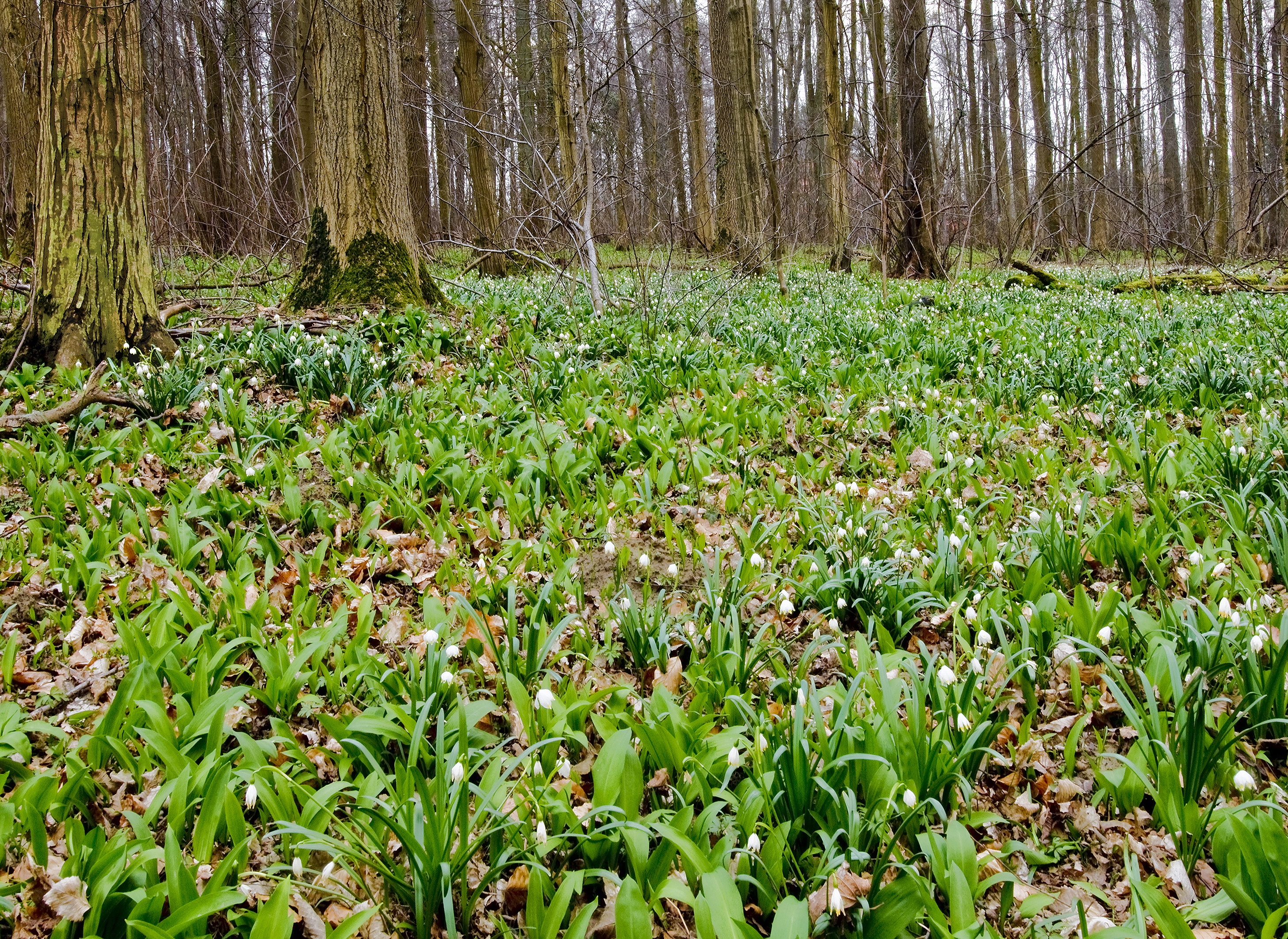 Spring Snowflake in the German Wood